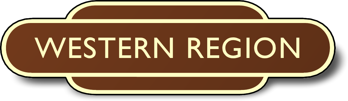 Self-made derivative of the railway station signage used by the British Transport Commission from nationalisation of the railways until the "British Rail" rebrand in the 1960s. Design based on the non-trademarked and not copyrightable station sign shape, with colours taken from standard reference works about the totems in use at the time.